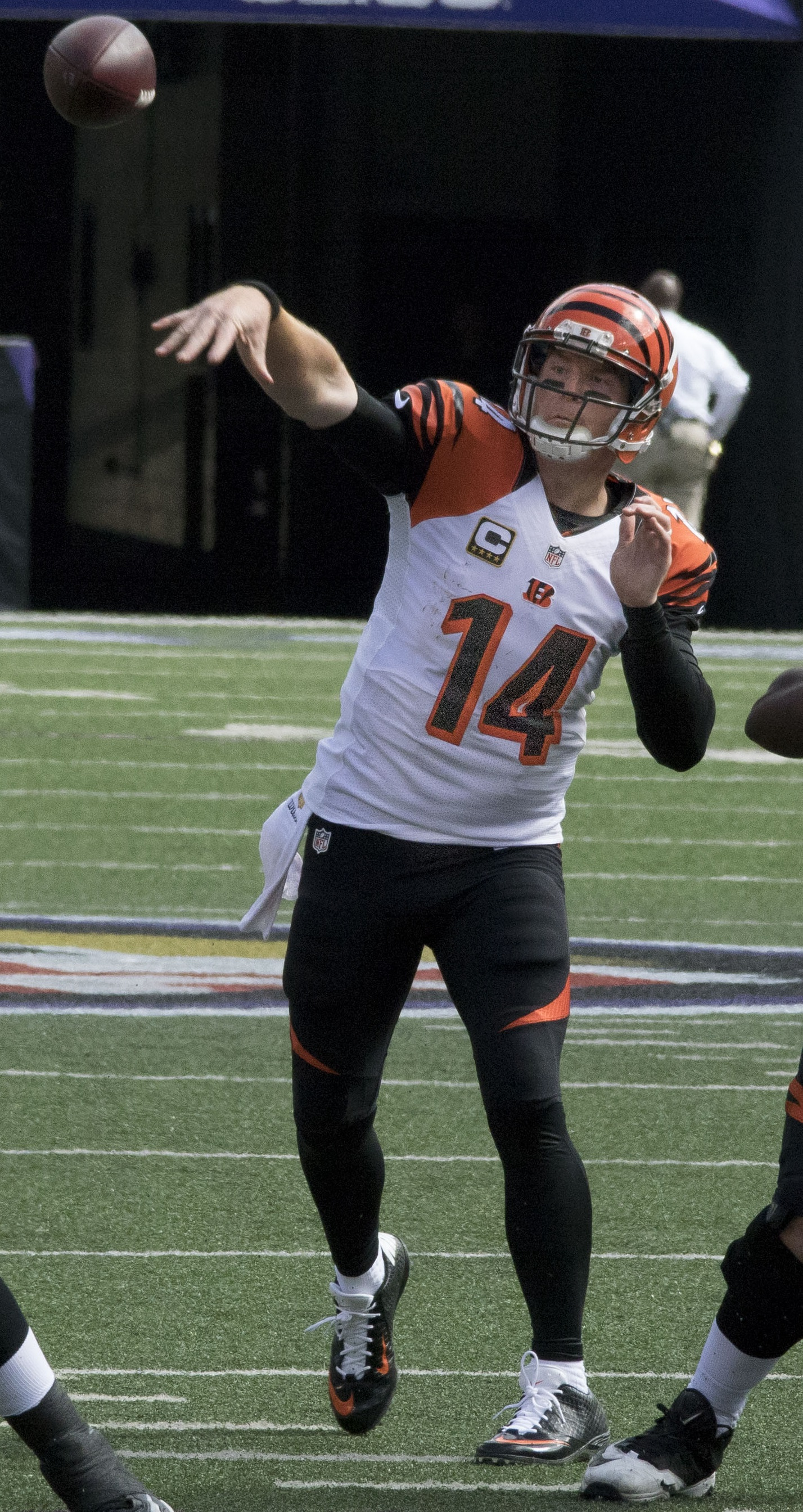 Bengals at Ravens 9/27/15